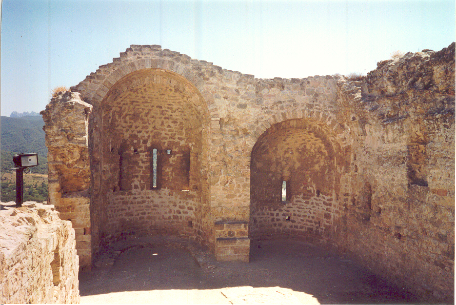 View of the ruins of Santa Maria del Castell de Claramunt